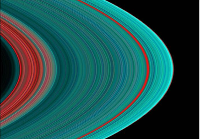 An image of Saturn's A Ring, taken by the Cassini Orbiter using an Ultraviolet Imaging Spectrograph.